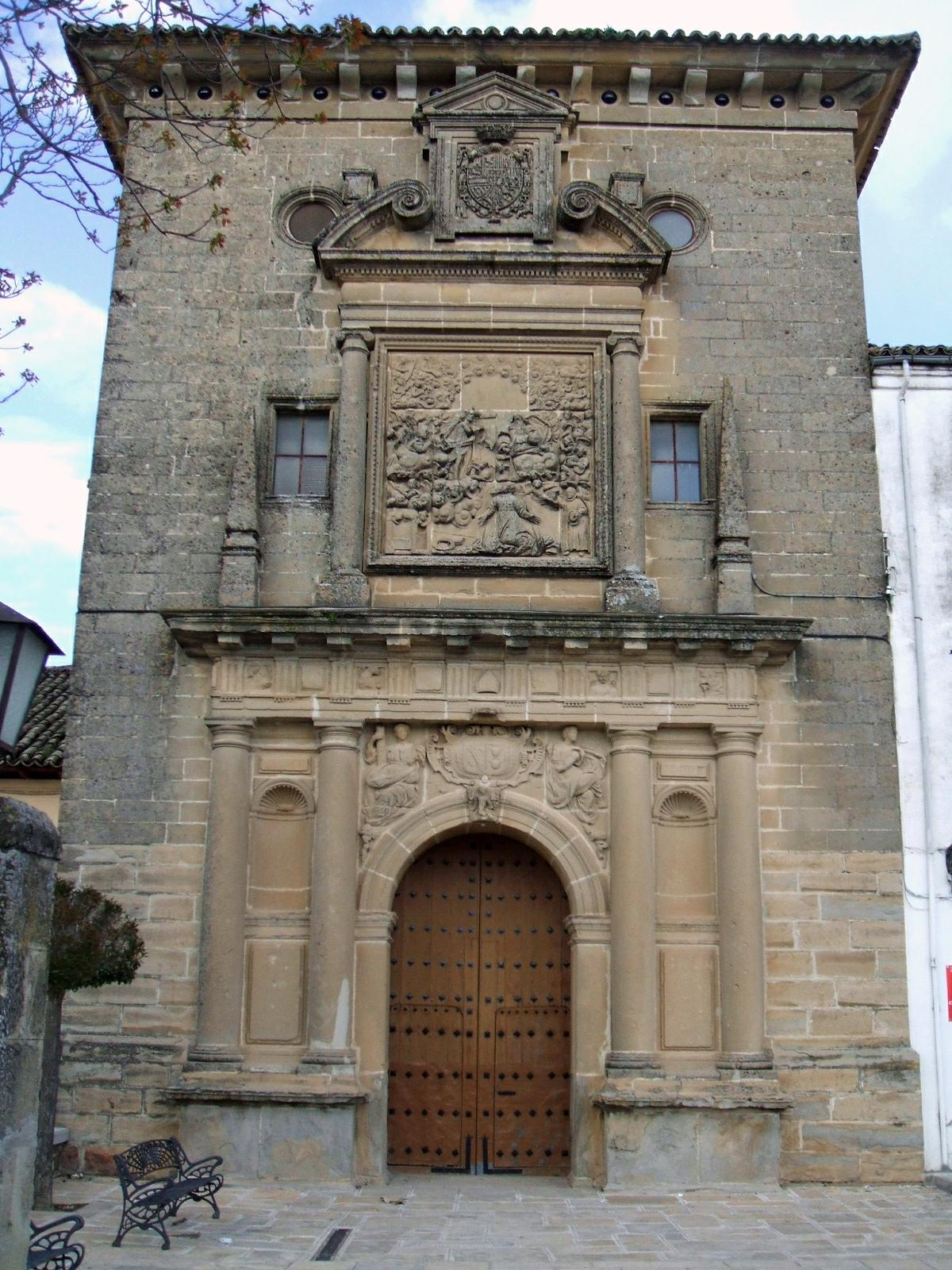 Fachada protobarroca (1609) de la iglesia del antiguo Colegio y Seminario jesuita de San Ignacio, en Baeza (Jaén, Andalucía, España)